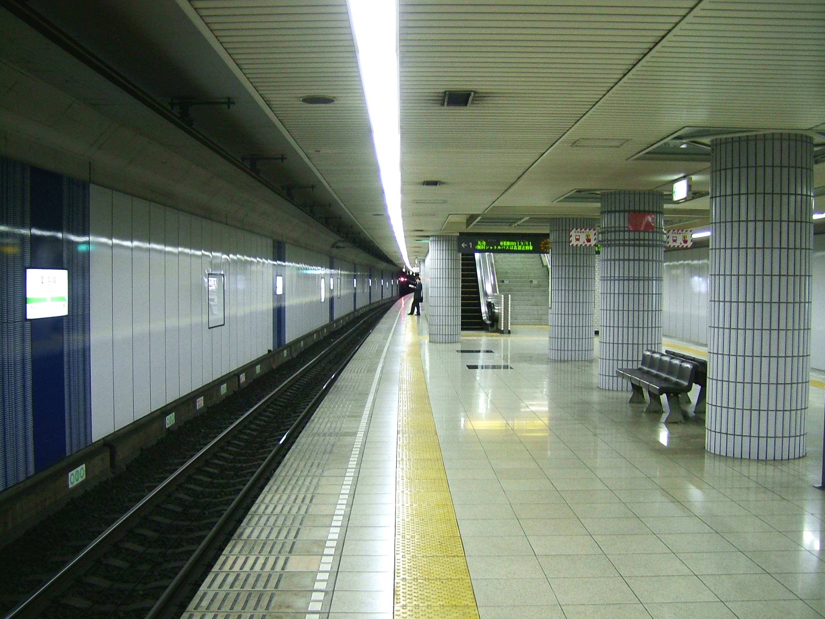 Higashi-Kaijin Station platform (Toyo Rapid Railway Line)